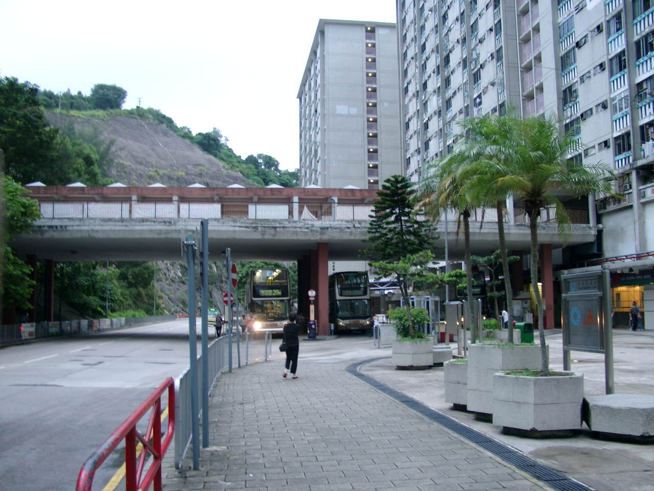 This is the Bus Terminal of Shun Lee Estate in Hong Kong